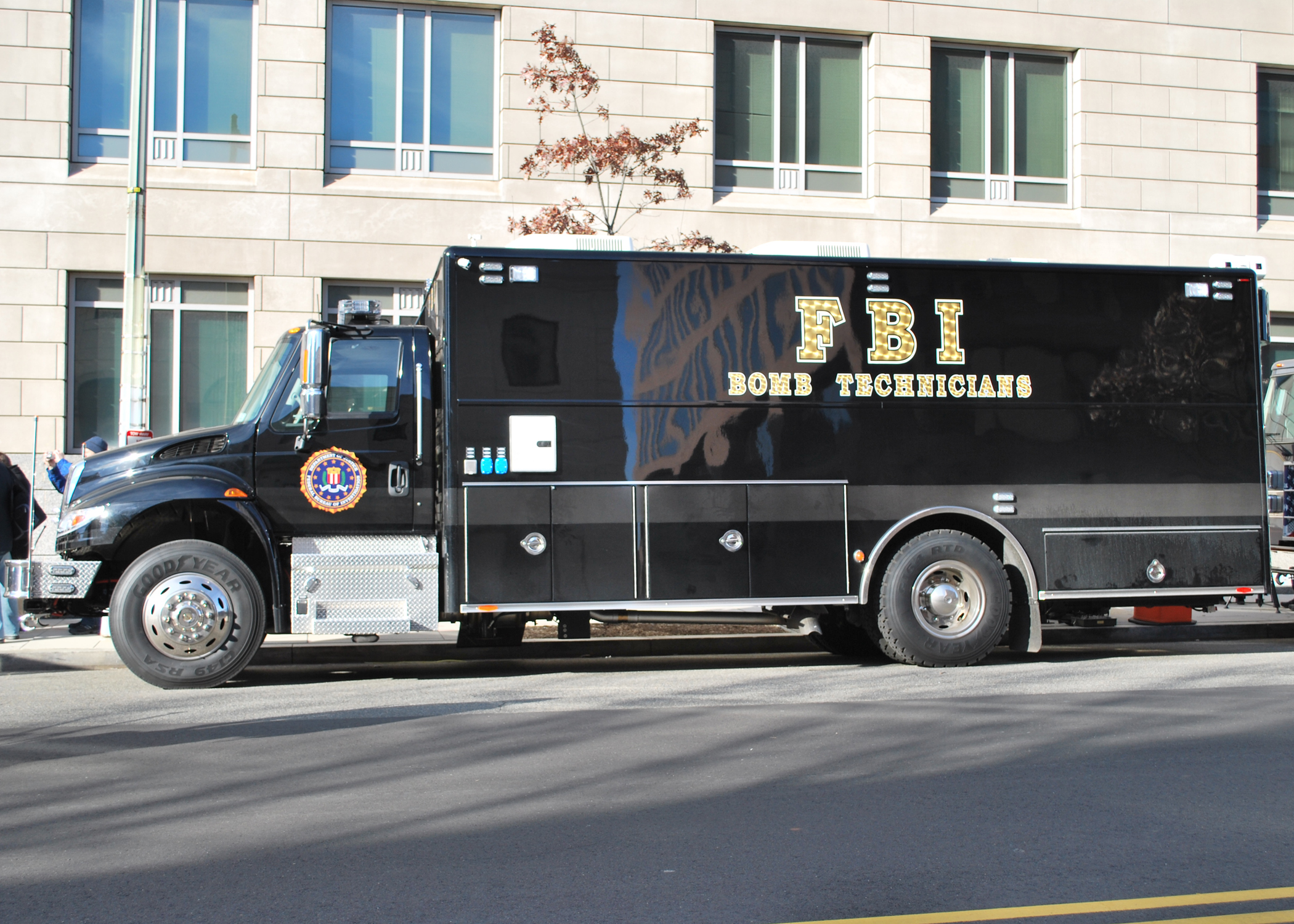 FBI Bomb technicians vehicle.